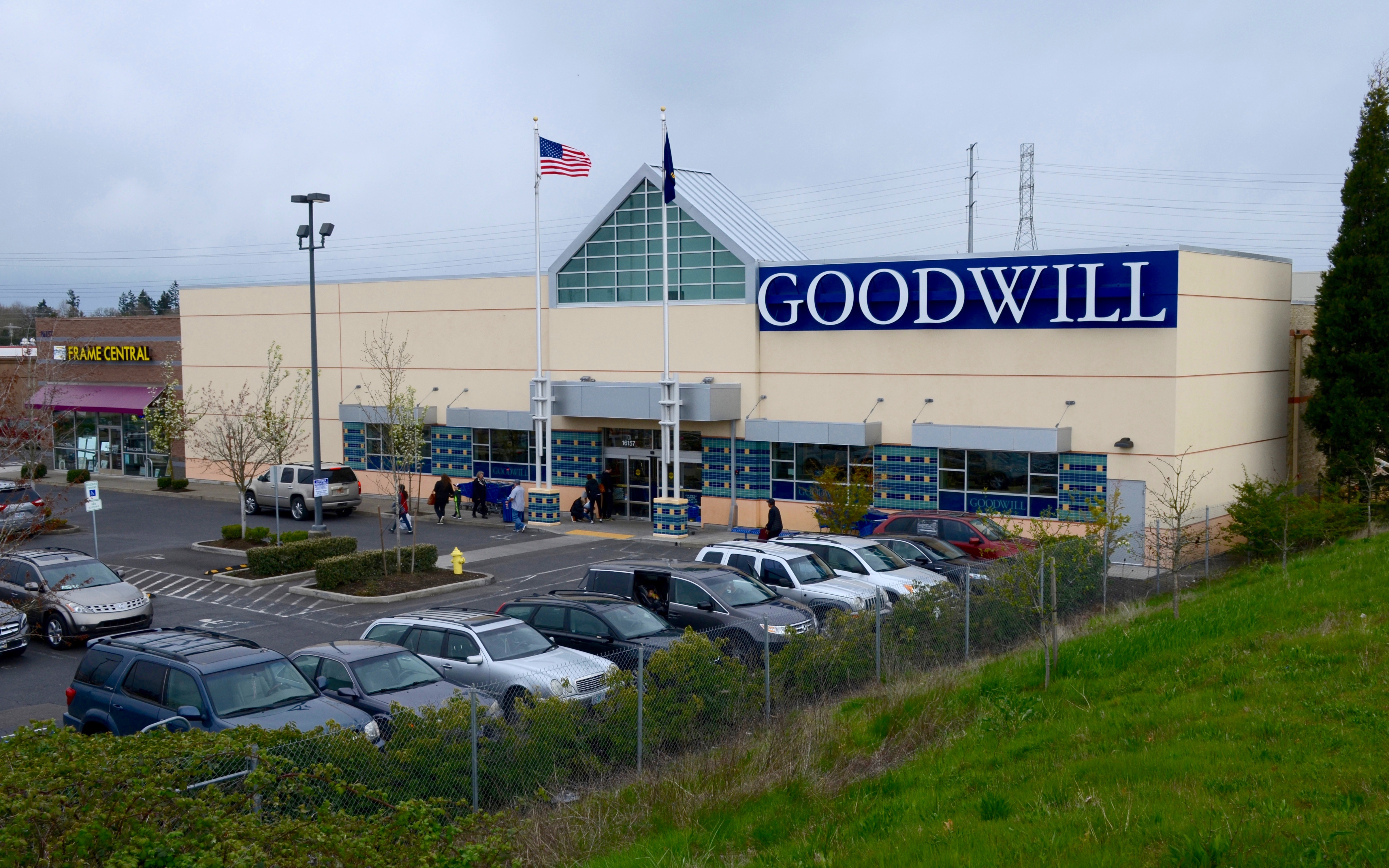 The Cornell Road Goodwill store, in northern Beaverton, Oregon. Located at the intersection of NW Cornell Road and Bethany Blvd., and adjacent to U.S. Highway 26 (Sunset Highway).